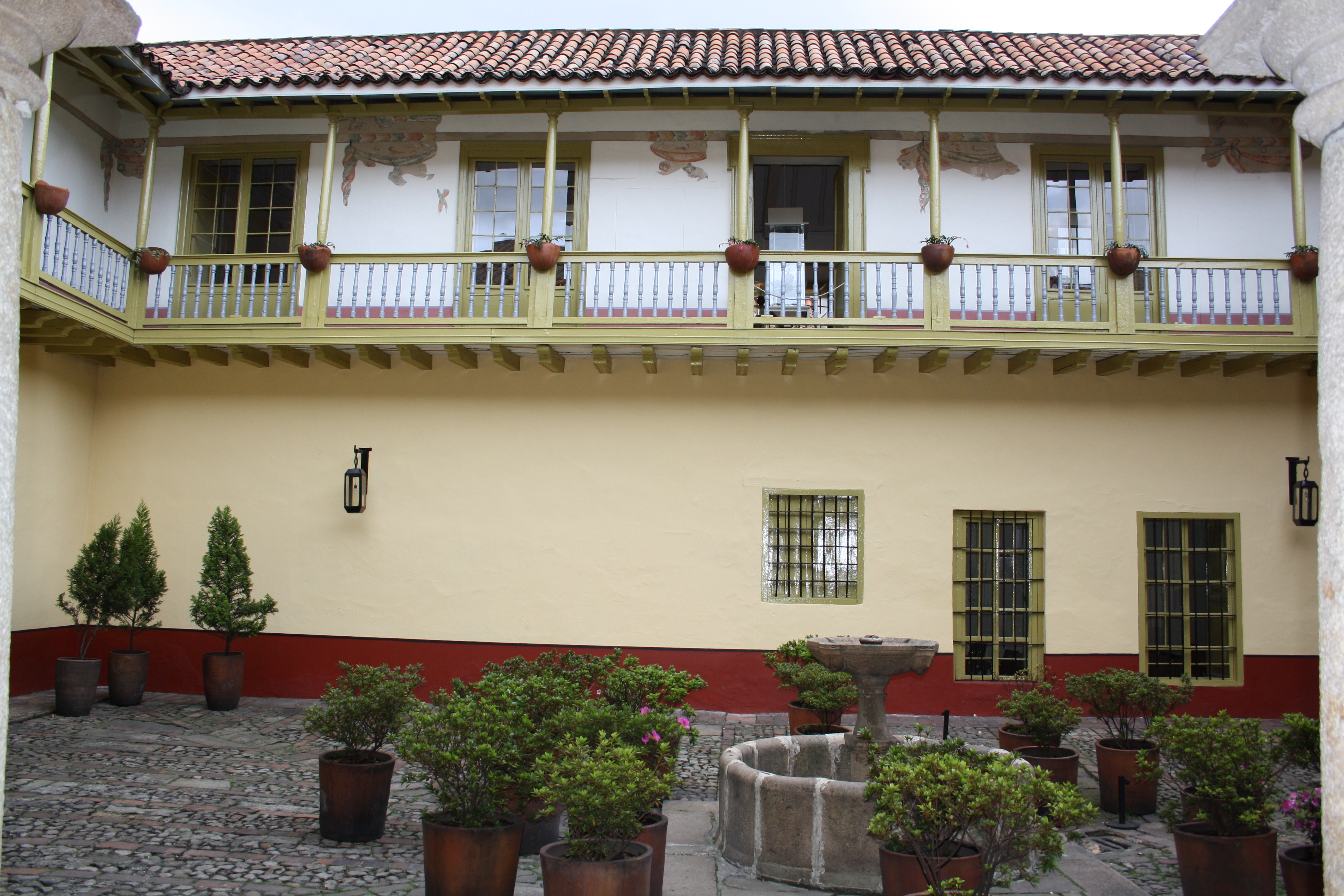 Casa del Marqués de San Jorge, patio central